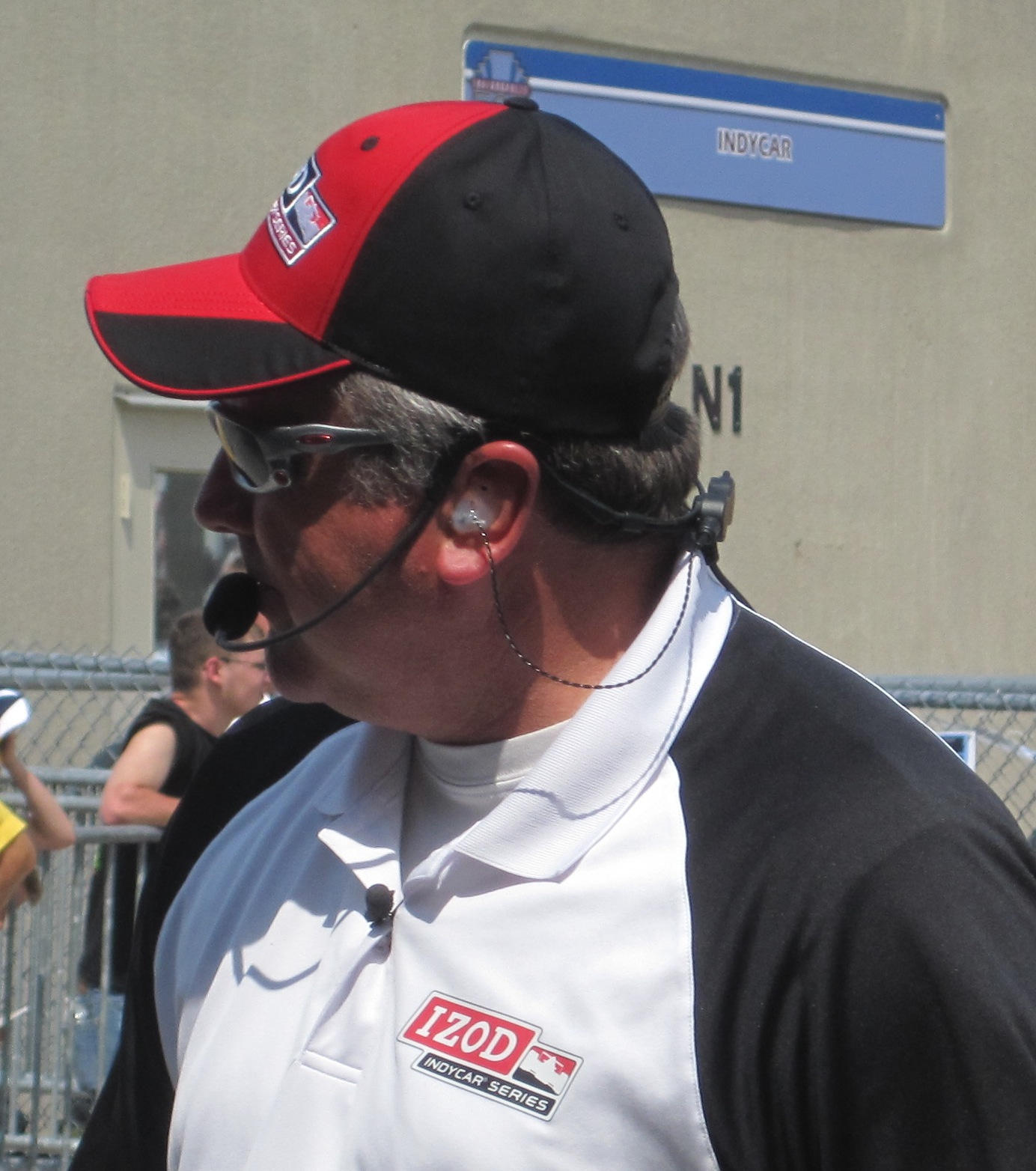 Chief Operating Officer of the Indy Racing League, Brian Barnhart, at the Indianapolis Motor Speedway for Bump day for the 2010 Indianapolis 500 on Saturday, May 23, 2010.